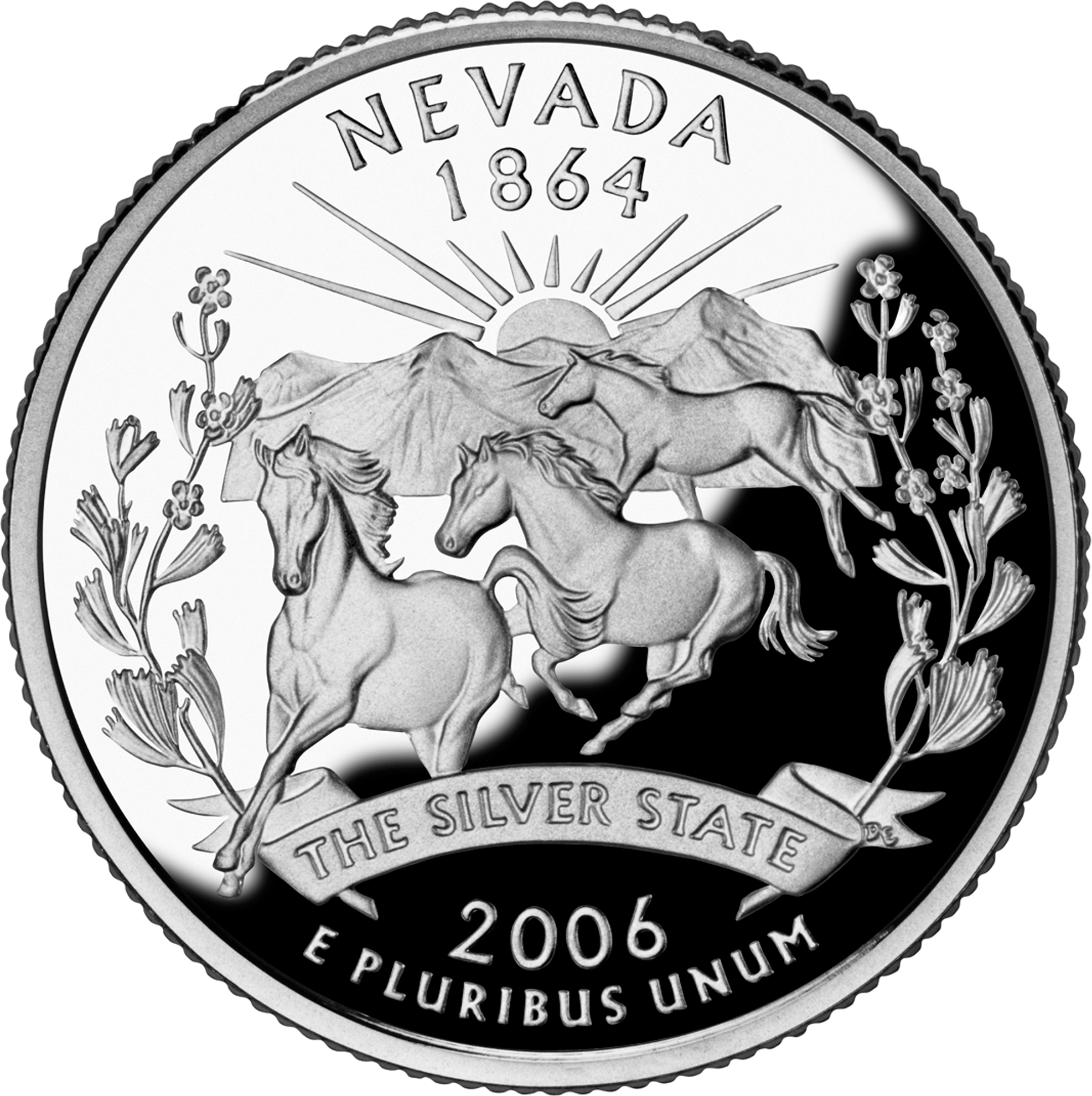 Removed background, cropped, and converted to PNG with Macromedia Fireworks. This image depicts a unit of currency issued by the United States of America. If Fraudulent use of this image is punishable under applicable counterfeiting laws. As listed by the United States Secret Service at money illustrations, the Counterfeit Detection Act of 1992, Public Law 102-550, in Section 411 of Title 31 of the Code of Federal Regulations (31 CFR 411), permits color illustrations of U.S. currency provided:1. The illustration is of a size less than three-fourths or more than one and one-half, in linear dimension, of each part of the item illustrated;2. The illustration is one-sided; and3. All negatives, plates, positives, digitized storage medium, graphic files, magnetic medium, optical storage devices, and any other thing used in the making of the illustration that contain an image of the illustration or any part thereof are destroyed and/or deleted or erased after their final use. Certain coins contain copyrights licensed to the U.S. Mint and owned by third parties or assigned to and owned by the U.S. Mint [1]. For the United States Mint circulating coin design use policy, see [2]; for the policy on the 50 State Quarters, see [3]. Also: COM:ART #Photograph of an old coin found on the Internet